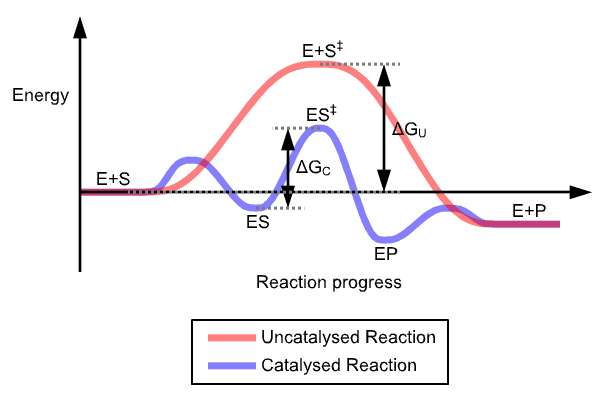 By Richard Wheeler (Zephyris) 2006.